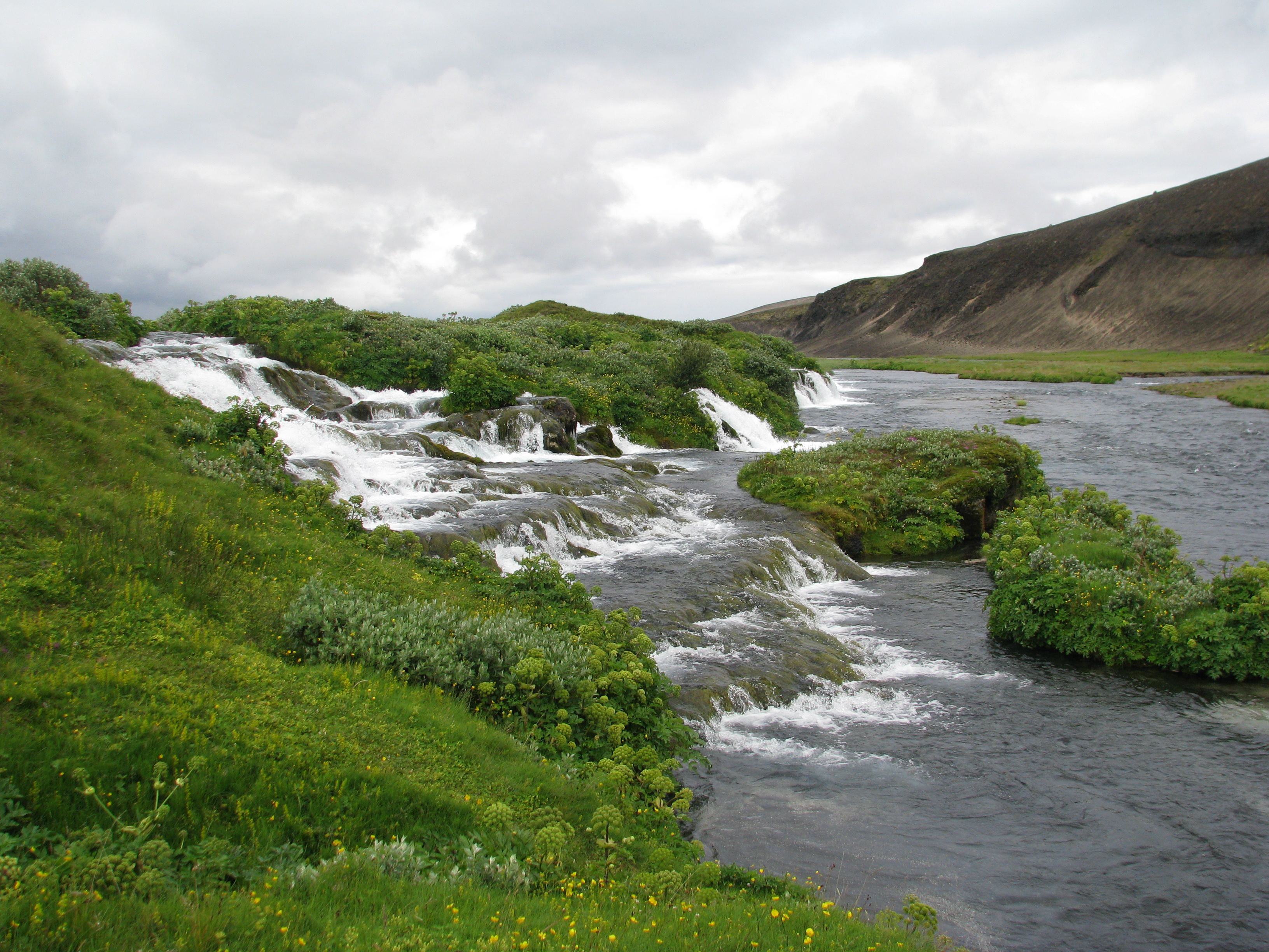 The Fossbrekkur falls, a waterfall in Iceland